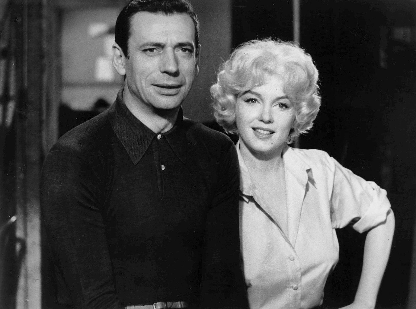 Photo of Yves Montand and Marilyn Monroe from the 1960 film Let's Make Love.